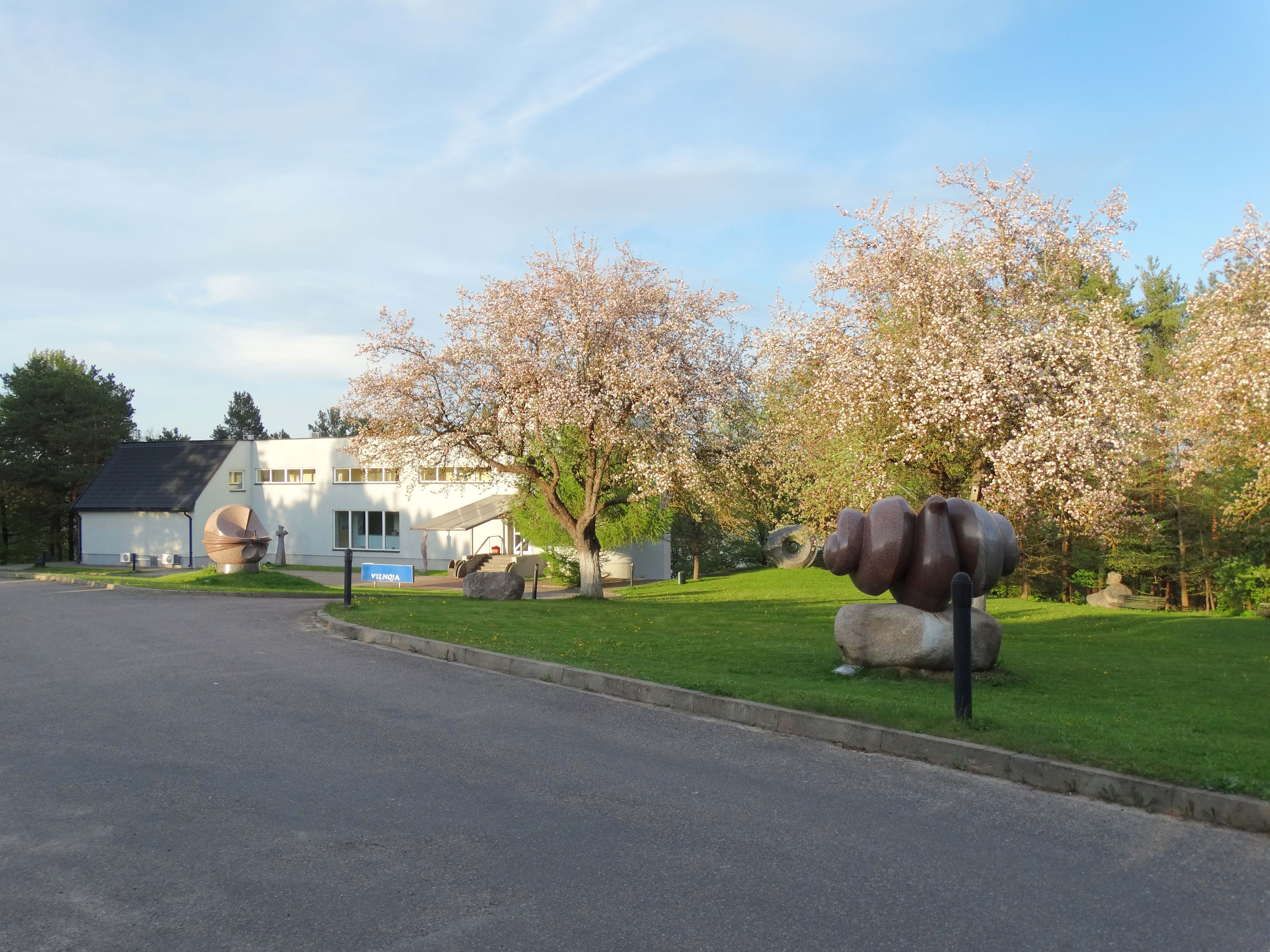 Vilnoja sculpture park administration, Sudervė, Lithuania